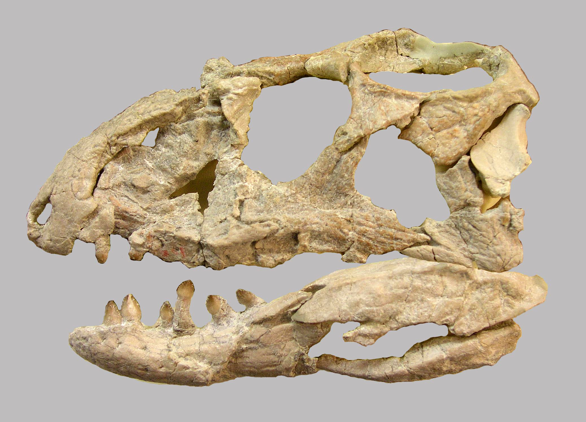 Skull of Revueltosaurus, photo by NPS.